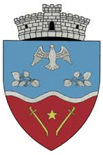 Coat of arms of Grădiştea commune, Ilfov County, Romania